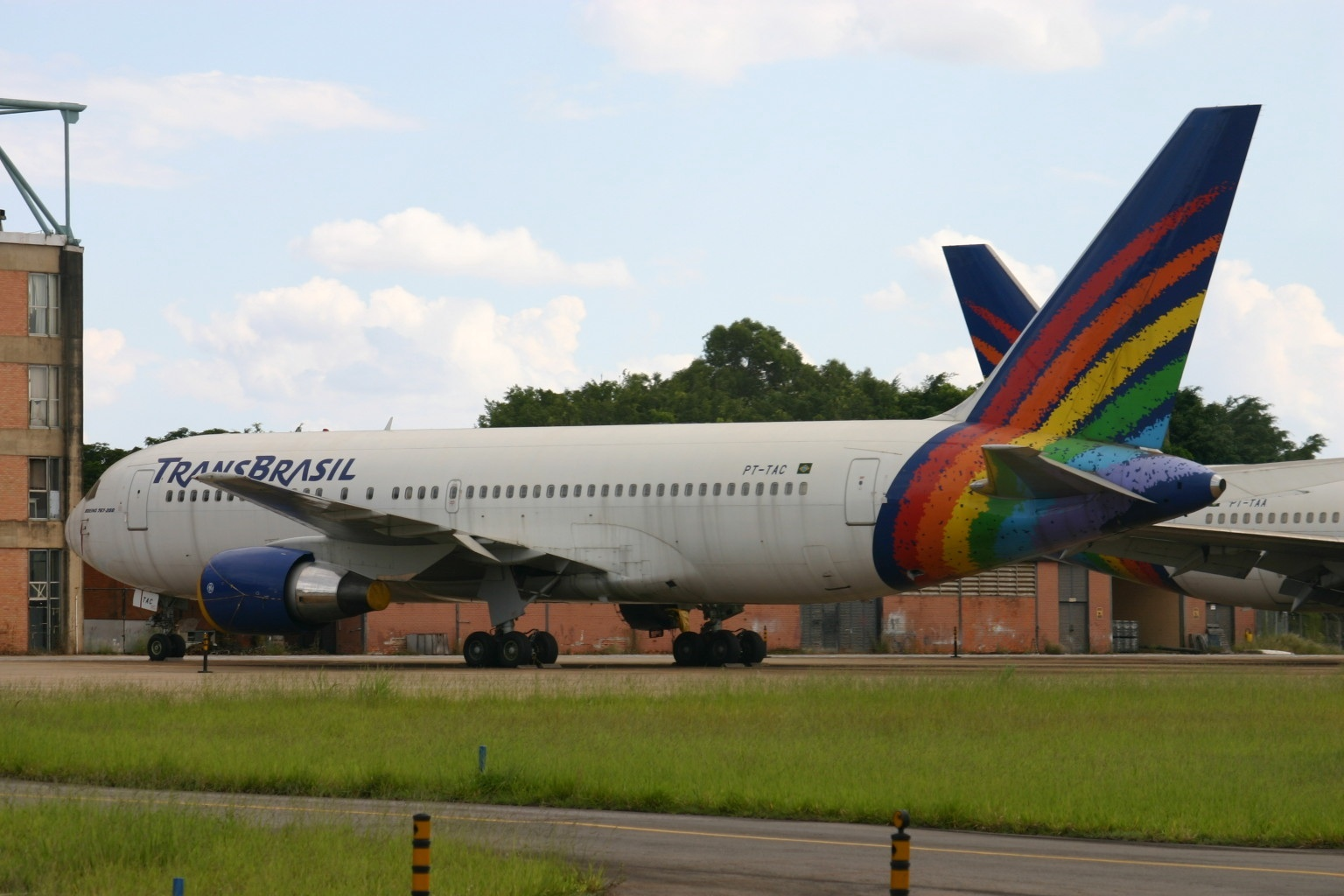 At Brasilia